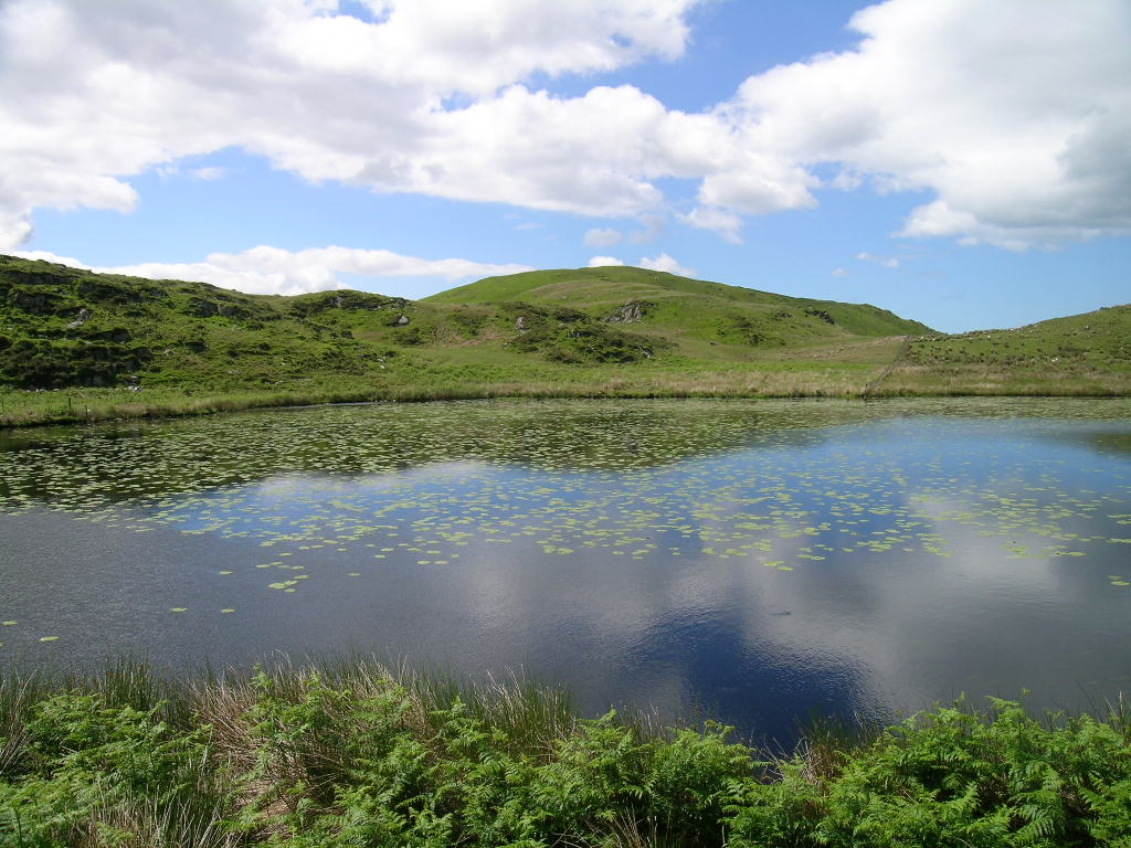 Bearded Lake